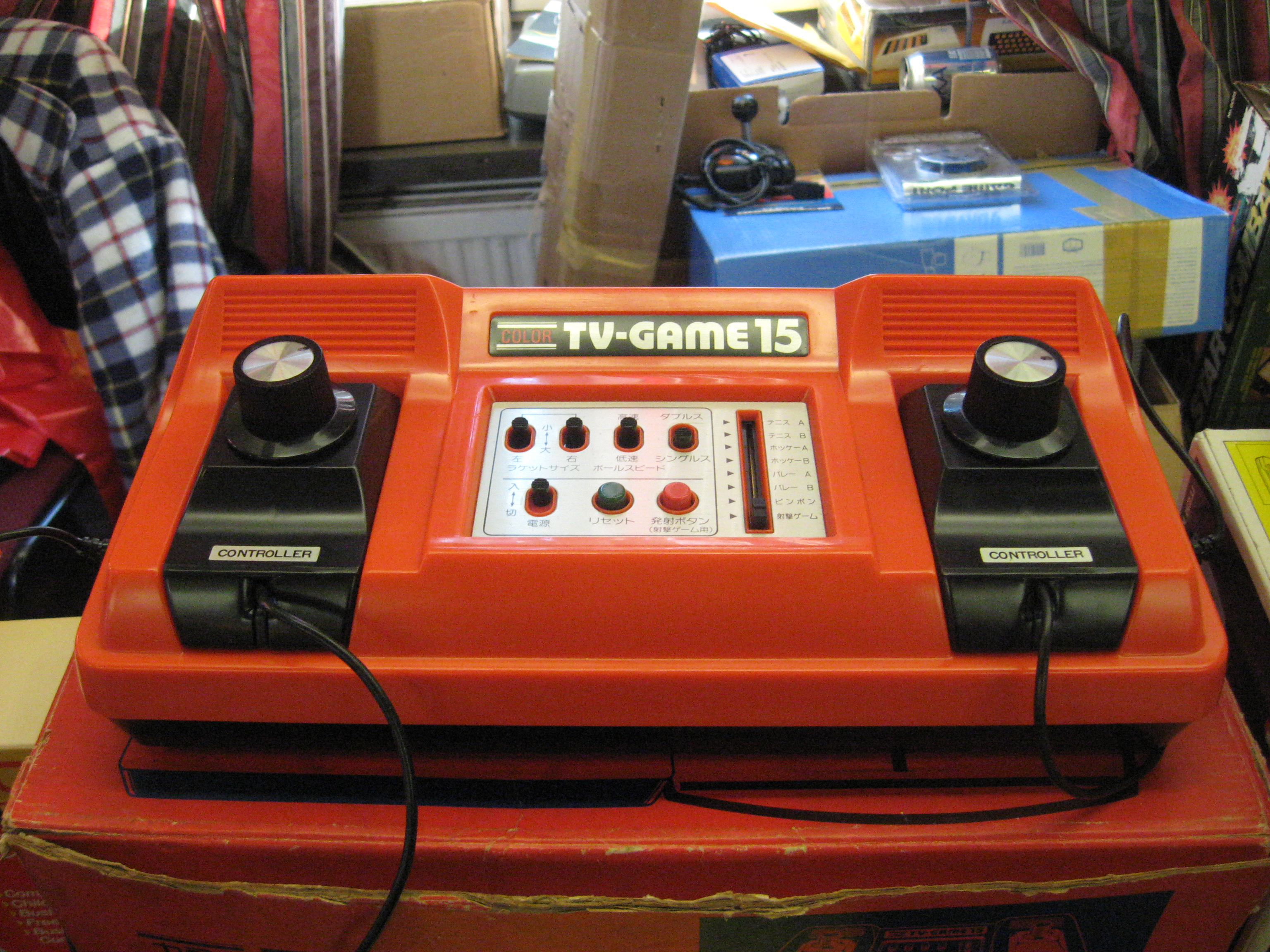 Nintendo Color TV-Game 15 dark orange version. Here the light orange version: Image:Color TV-Game 15.jpg